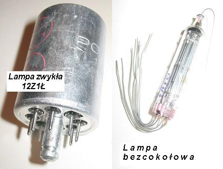 Obsolete military vacuum tubes. (left)12Ż1Ł (equivalent to 12Ж1Л) standard base tube, (right) miniature tube 1Ж29Б